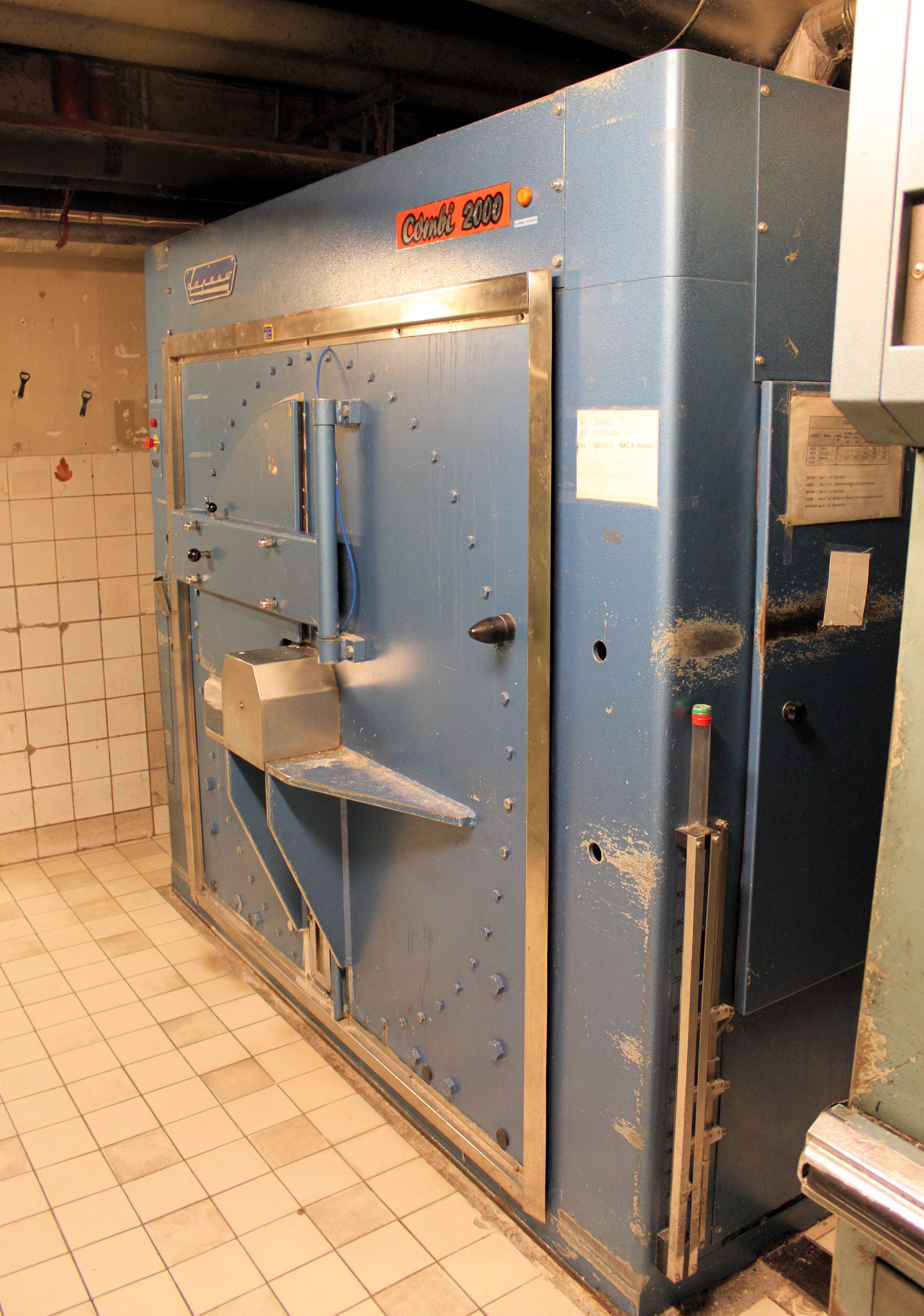 A Belgian Lapauw Combi 2000 industrial washer from the 80's, still in use in the laundry of hotel Hilton in Brussels.